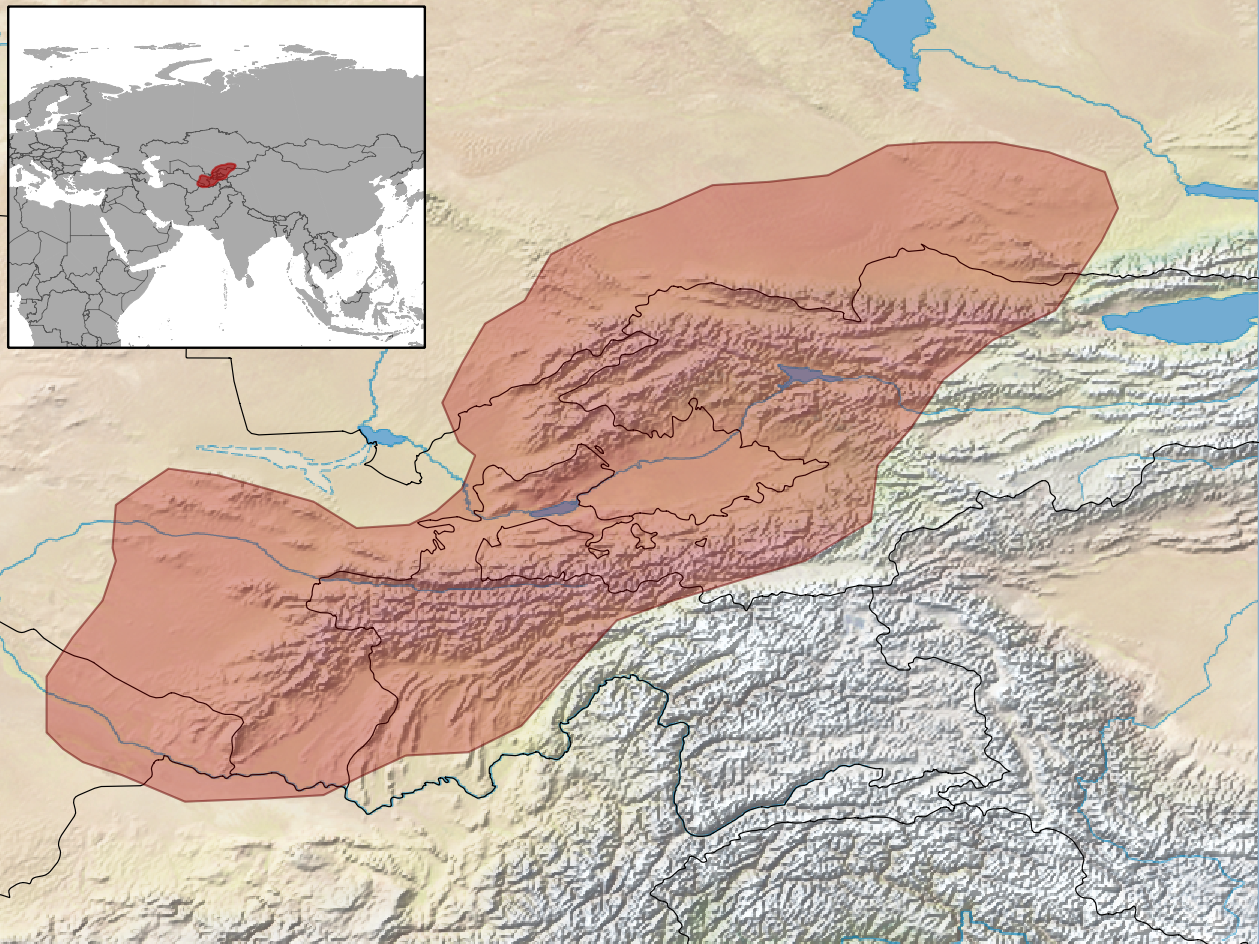 geographic distribution of Ablepharus deserti